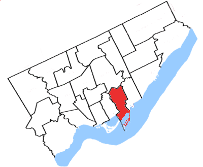 Map of the Toronto—Danforth electoral district showing its borders from 1996 to 2004. Created by SimonP.